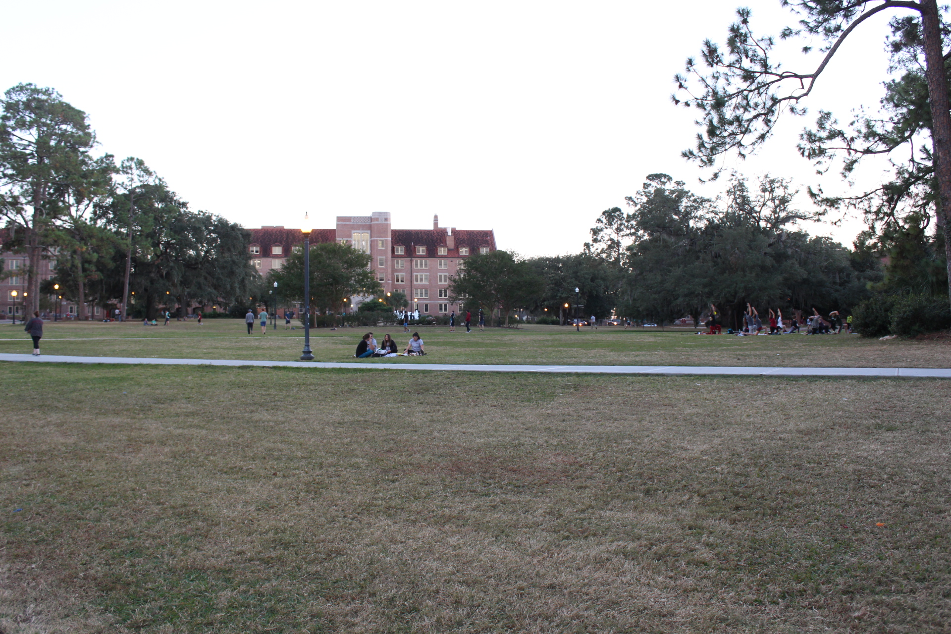 A green at Florida State University's Tallahassee campus used by students for recreation and events.